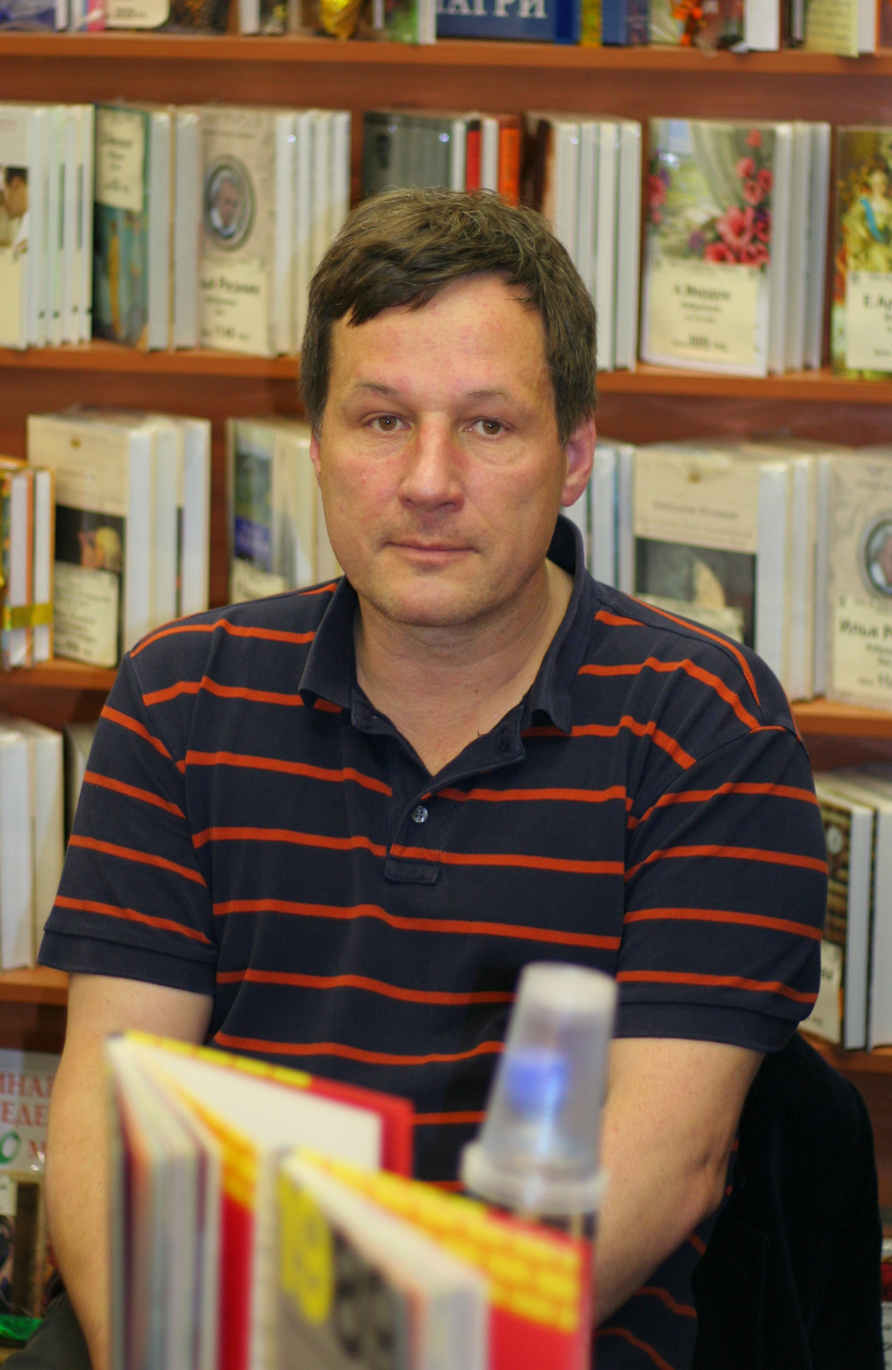 Henning Wagenbreth (* 1962), a german painter, presents one of the books illustrated by him in Moscow.